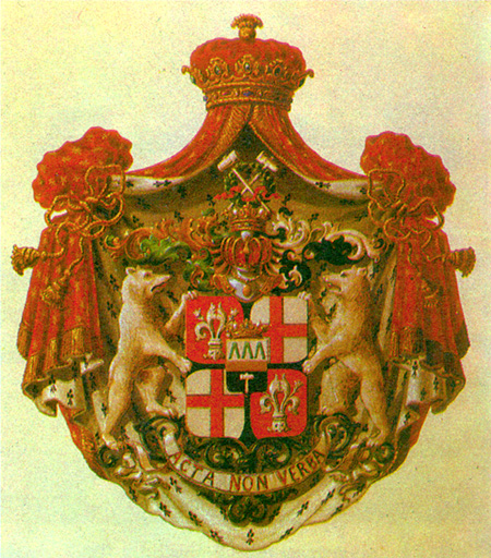 Coat of arms of Anatole Demidov, Principe di San-Donato. The design is at least 150 years old